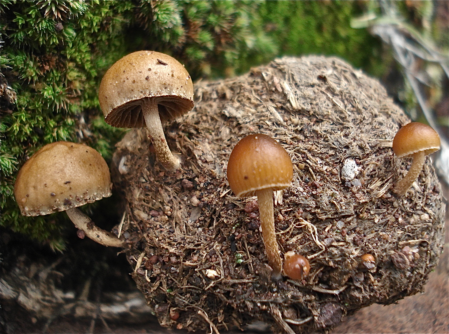 Fruit bodies of the fungus Deconica coprophila (Bull.) P. Karst. (formerly Psilocybe coprophila (Bull.) P. Kumm.). Specimens photographed in Real de Catorce, San Luis Potosí, Mexico.